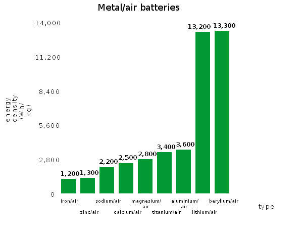 A bar chart of the theoreticly attainable energy densities with metal-air batteries. The chart was made based on an image in Elektor Magazine september 2009. This image the chart was based on was made by the RWTH Aachen University, ISEA